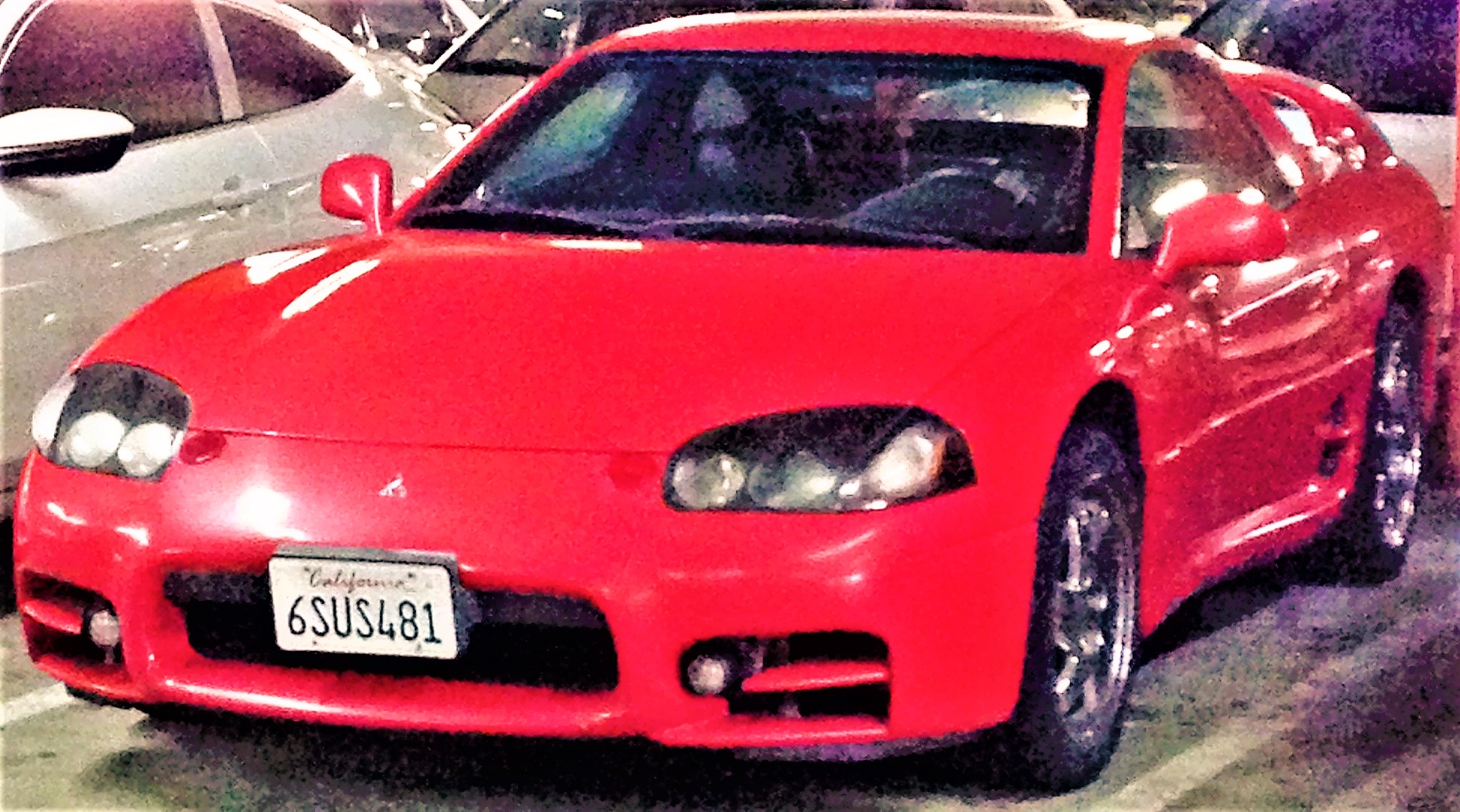 Mitsubishi 3000GT